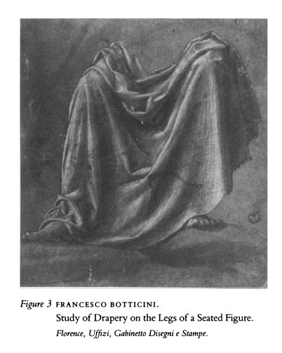 Drawing by Francesco Botticini